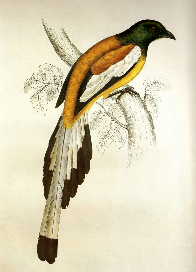 Rufous Treepie (Indian Treepie) Dendrocitta vagabunda (Latham)